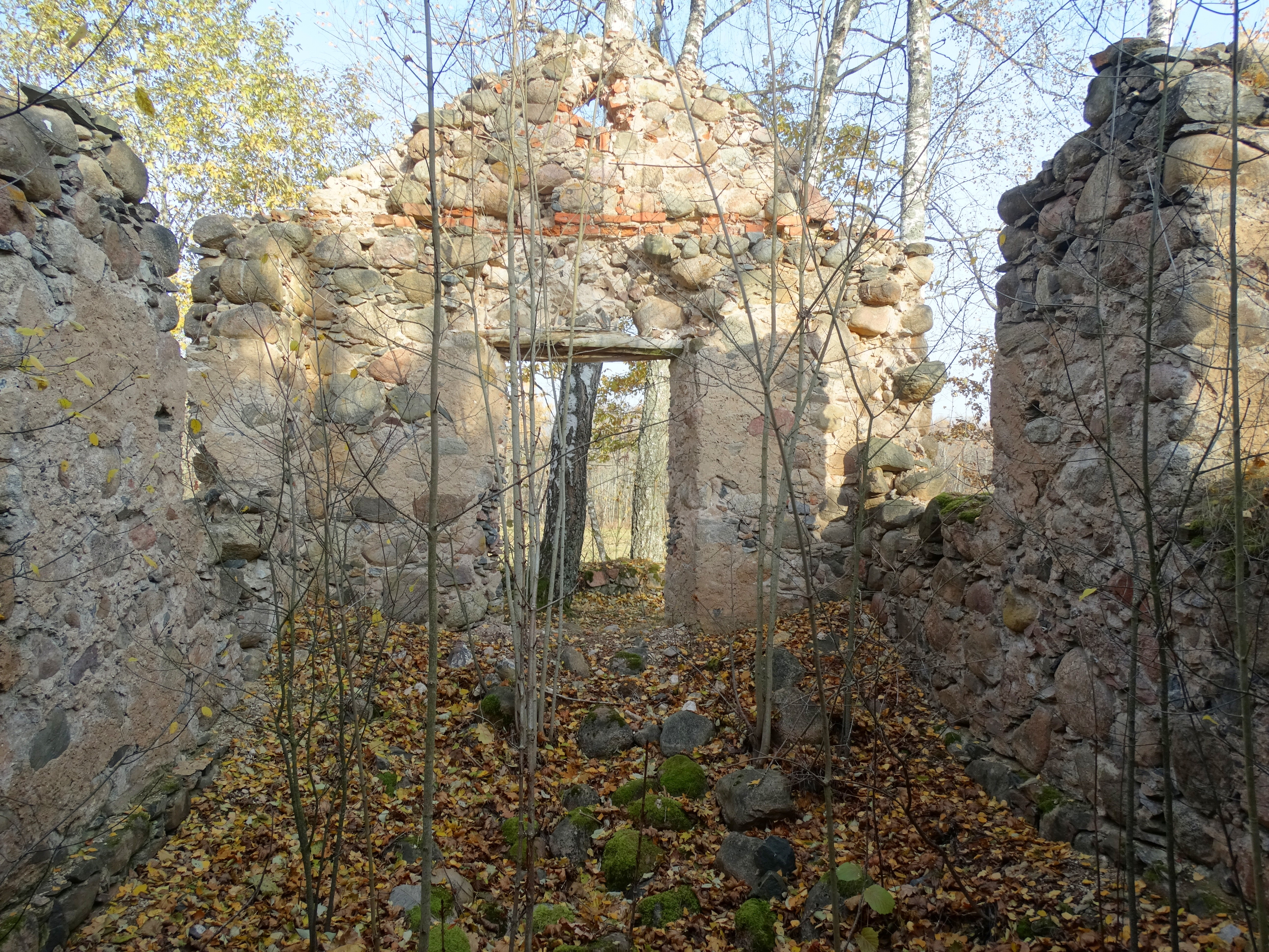 Ruins of chapel, Taukeliai, Utena district, Lithuania